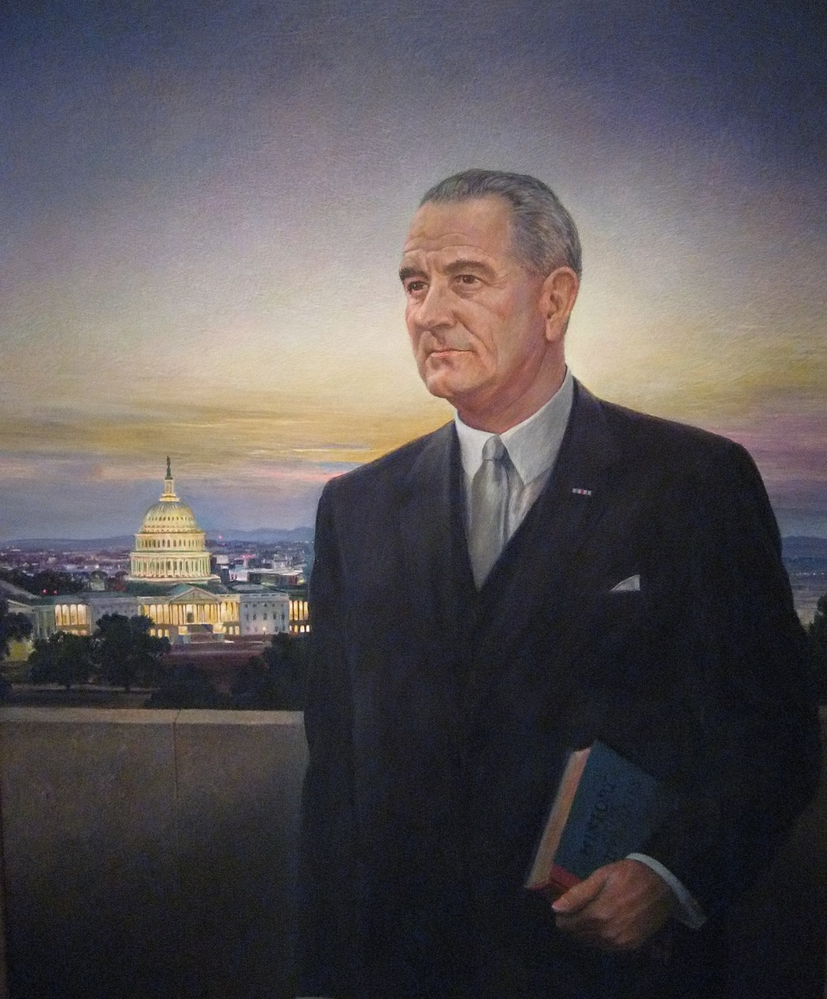 LBJ portrait in the National Portrait Gallery